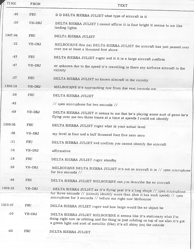 Australian Department of Transportation report on the Valentich Disappearance (page 2).